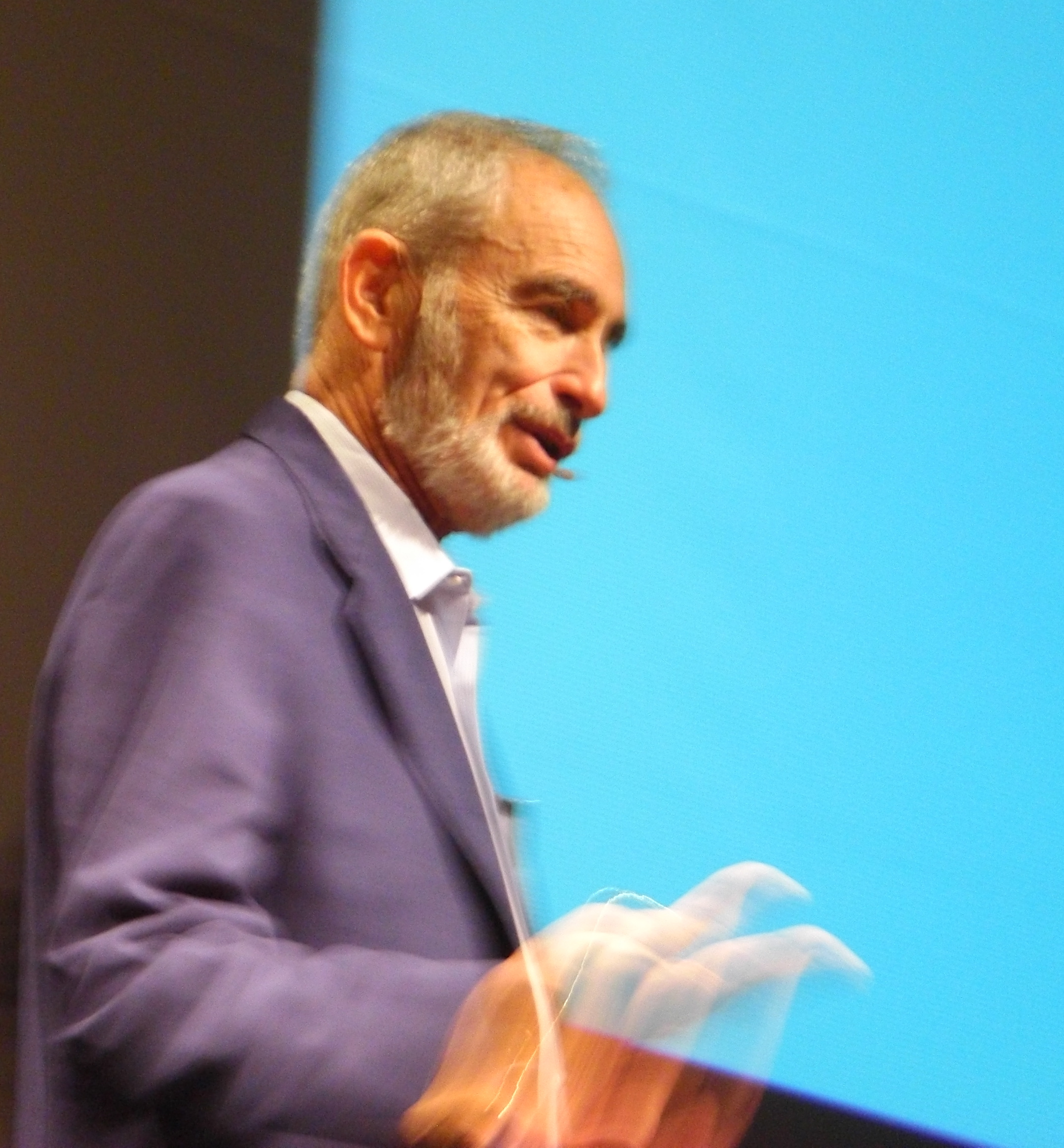 Paul R. Ehrlich in 2008.